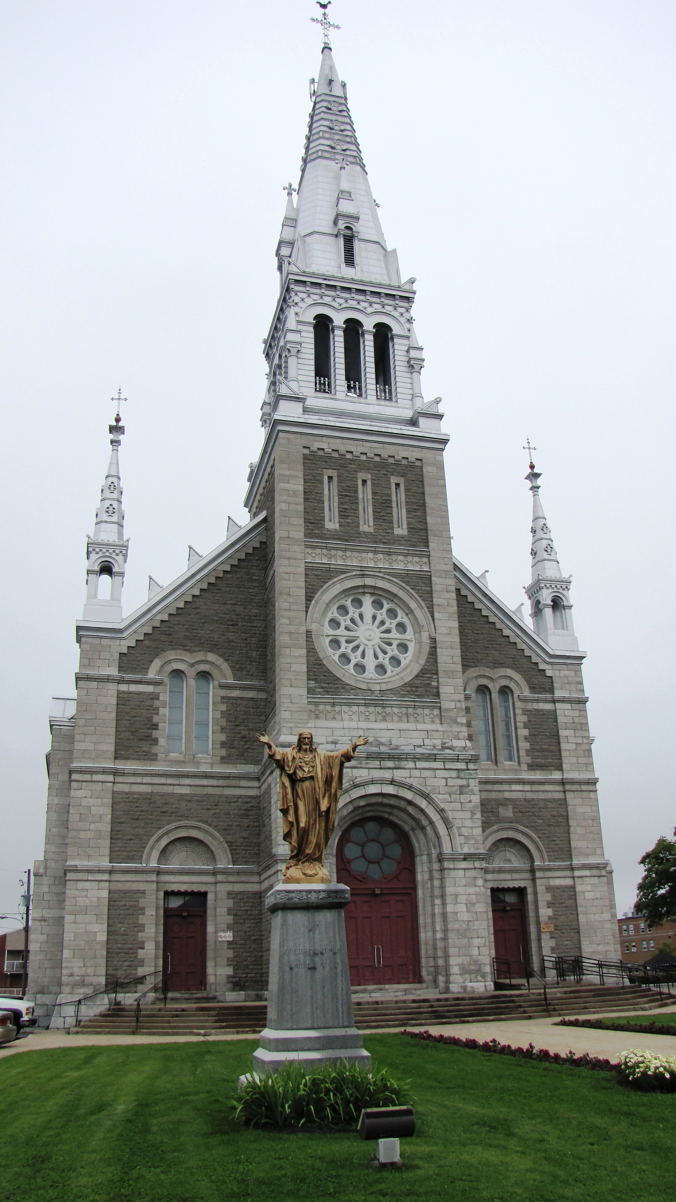 Eglise de Saint-Lin, Saint-Lin-Laurentides, Quebec